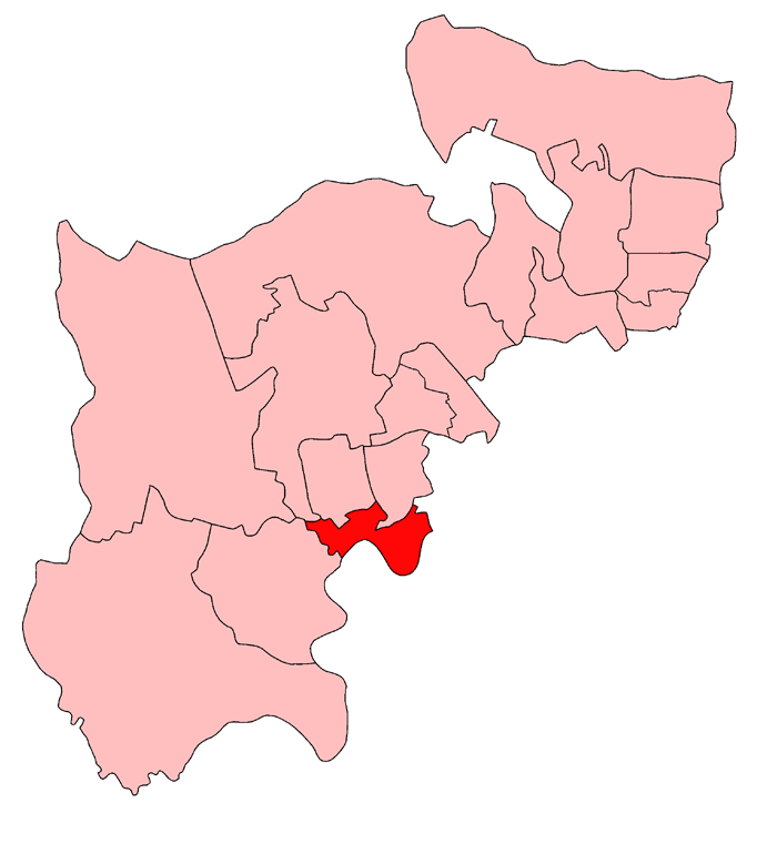 A map of Brentford and Chiswick constituency within Middlesex, as it existed from 1918 to 1945.